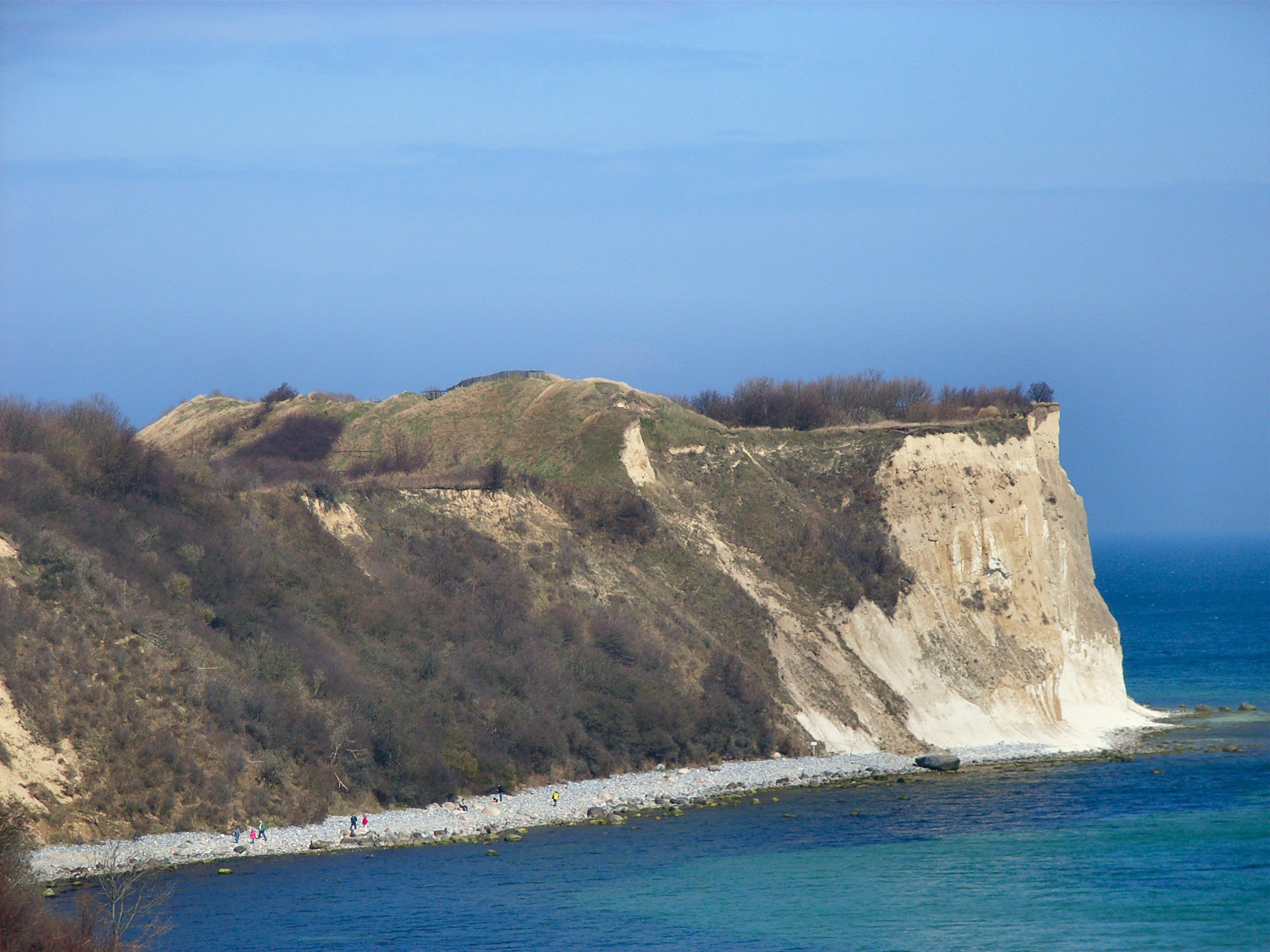 the Jaromarsburg on the cape Arkona (island Rügen)